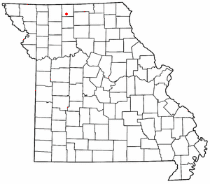 Modified from a map on Wikipedia.